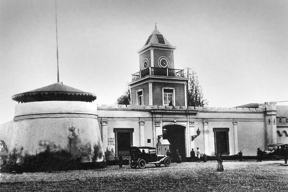 Fort Saint Catherine, ancient quarter of artillery.